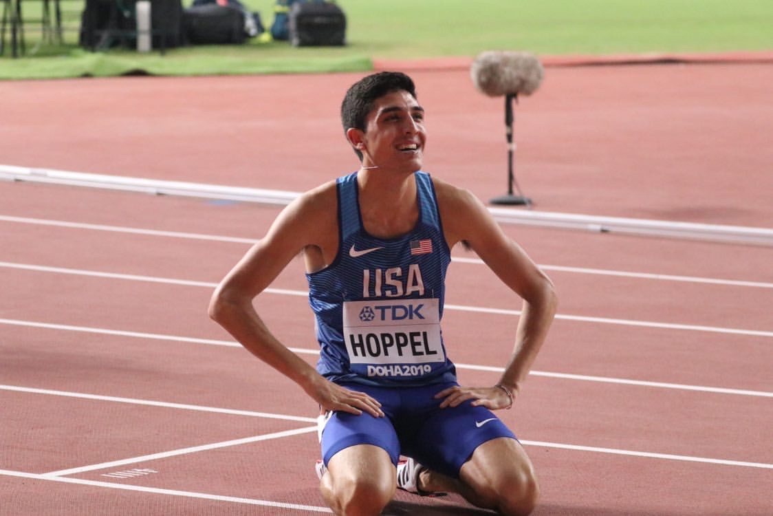 Bryce Hoppel post semi-final round in the 800m at the IAAF World Athletics Championships Doha 2019